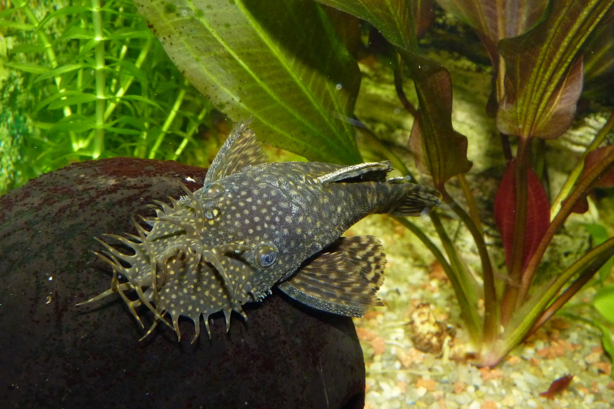 a Bristlenose Catfish (ancistrus dolichopterus) (male) is sitting on a coconut shell